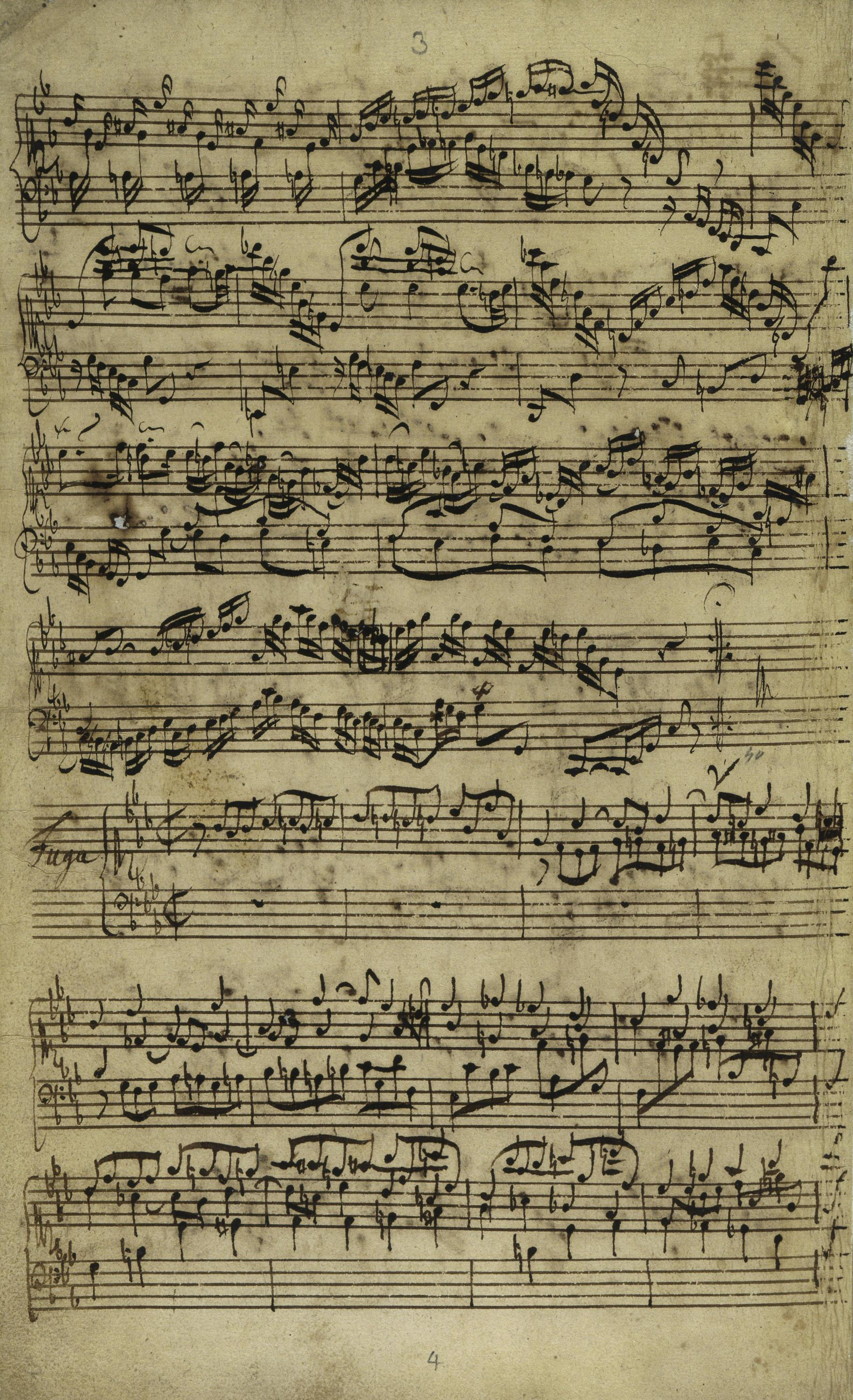 Johann Sebastian Bach's second autograph of BWV 906, Fantasia and Fugue in C minor. Unlike Bach's first autograph of the same work, the second autograph also includes the (likely unfinished) Fugue: 3rd page of the manuscript showing the end of the Fantasia, and start of the Fugue. The manuscript resides in SLUB Dresden, and is displayed on its website as Mus.2405-T-52 - Further information about this manuscript can be found at the D-Dl Mus. 2405-T-52 page at Bach Digital.